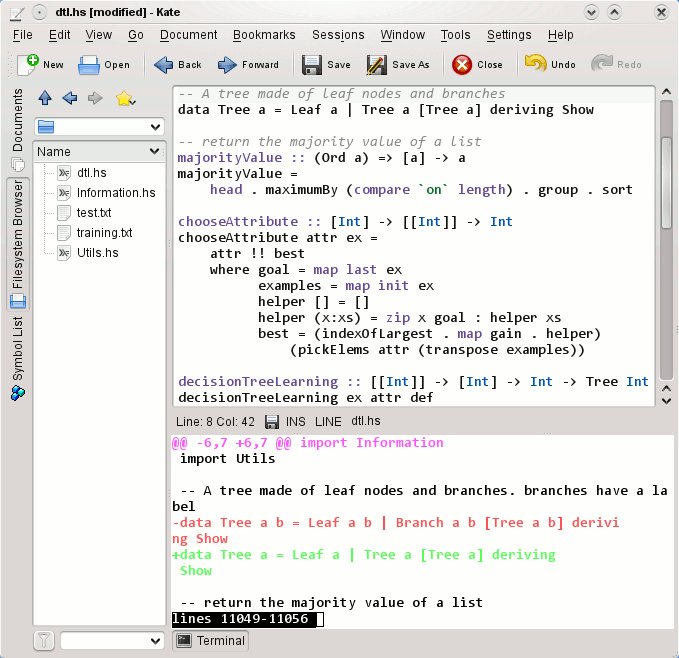 Screenshot of Kate version 3 from KDE 4 editing a Haskell file and viewing a diff in the embedded terminal